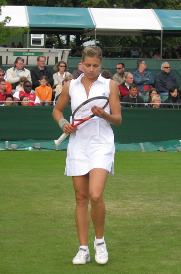 Maria Kirilenko at Wimbledon 2007